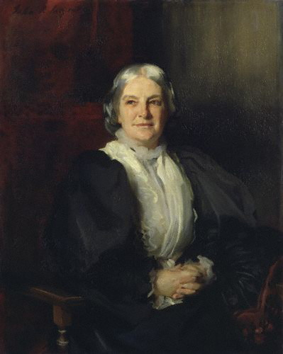 Portrait of Octavia Hill